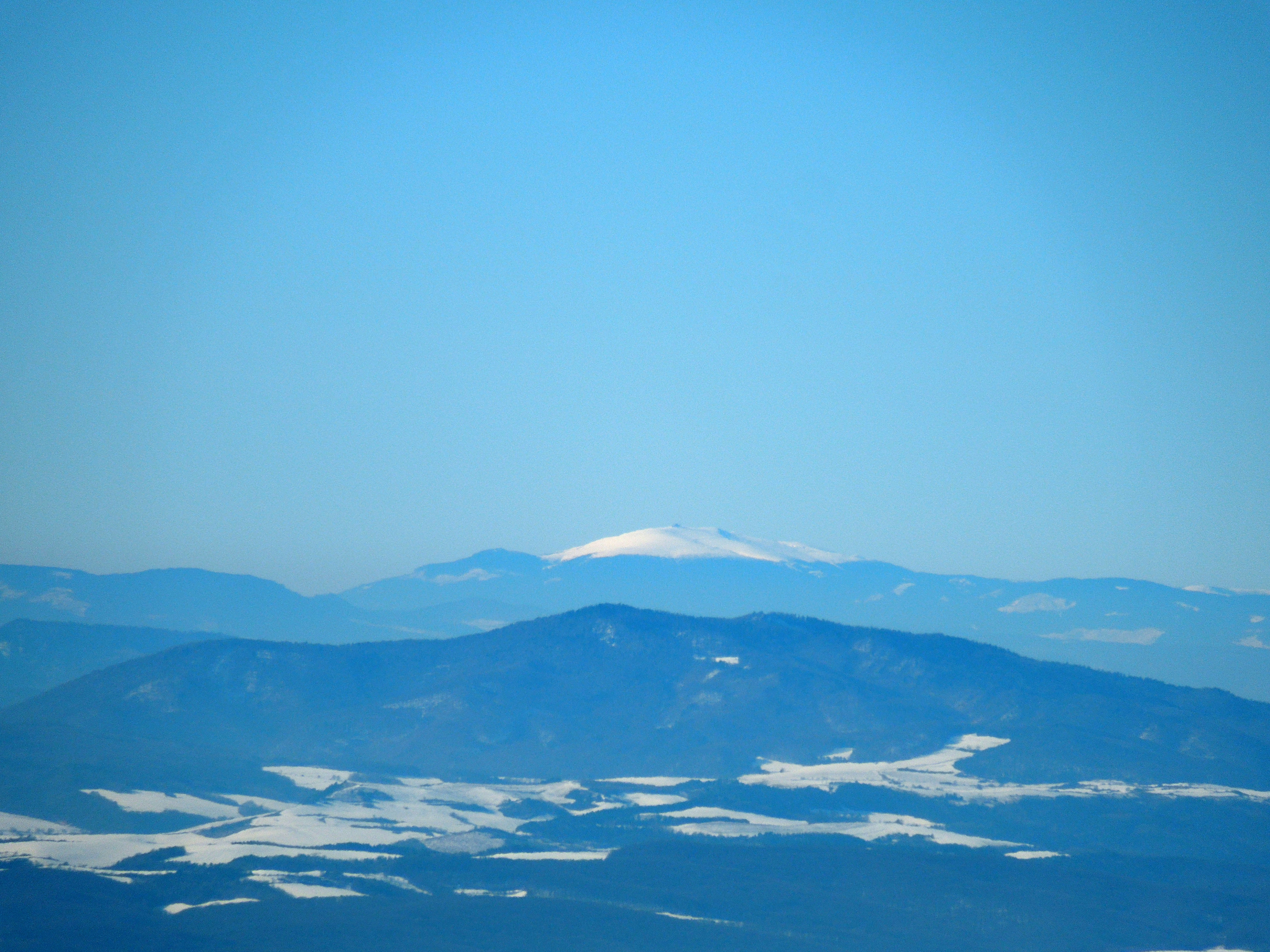 View of Kráľova hoľa from Šimonka